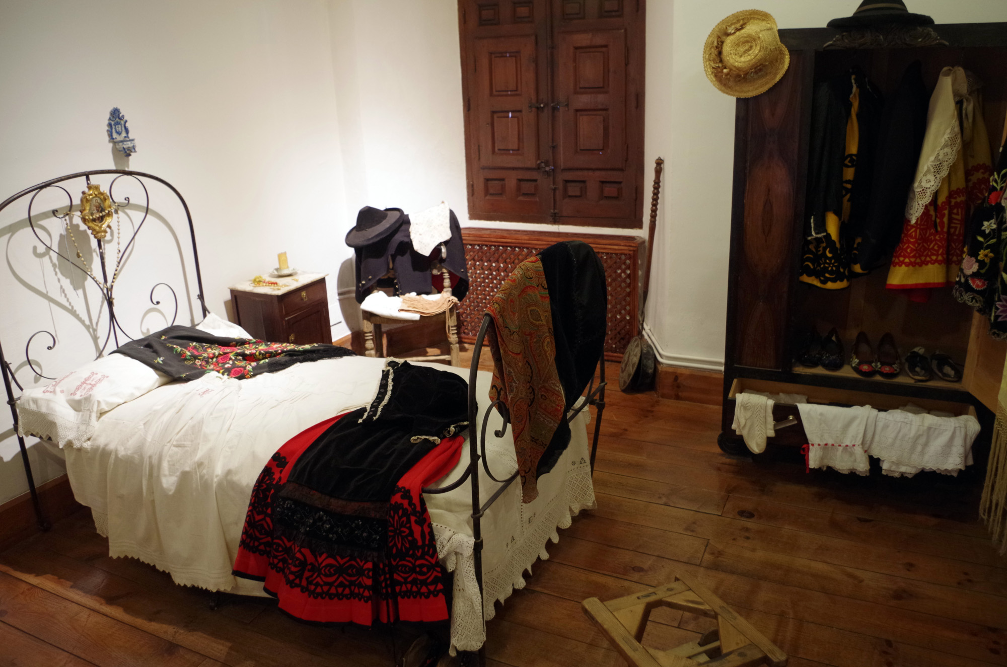 Bedroom with clothes from mid 20th century in Ávila Museum (Casa de los Deanes building) (Ávila, Spain).